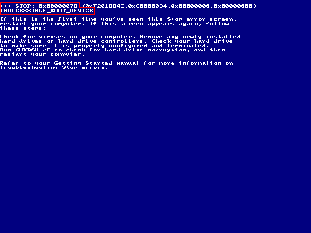 Blue screen of death, Windows 2000.